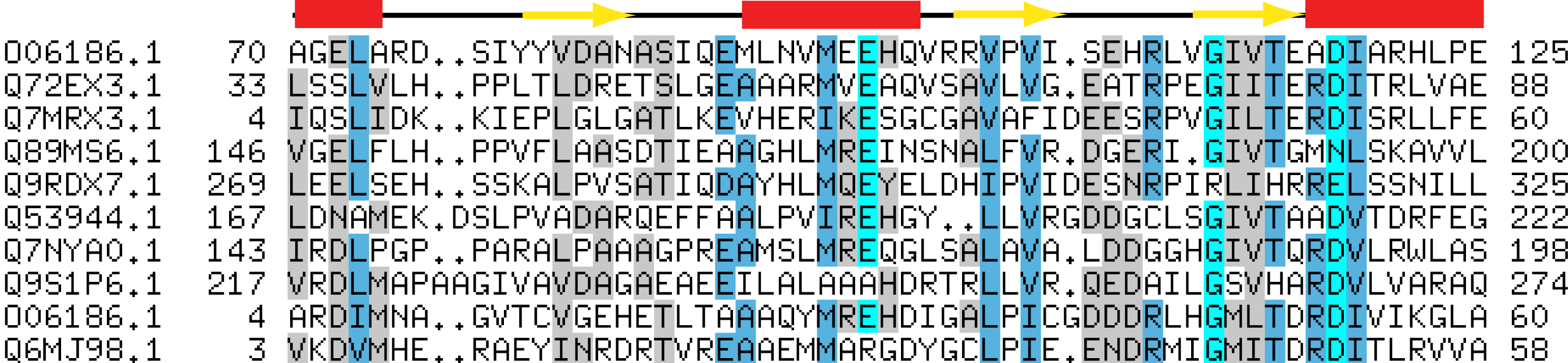 Multiple sequence alignment of CBS domains. Secondary structures are shown above with yellow arrows representing beta strands and red boxed alpha helices.